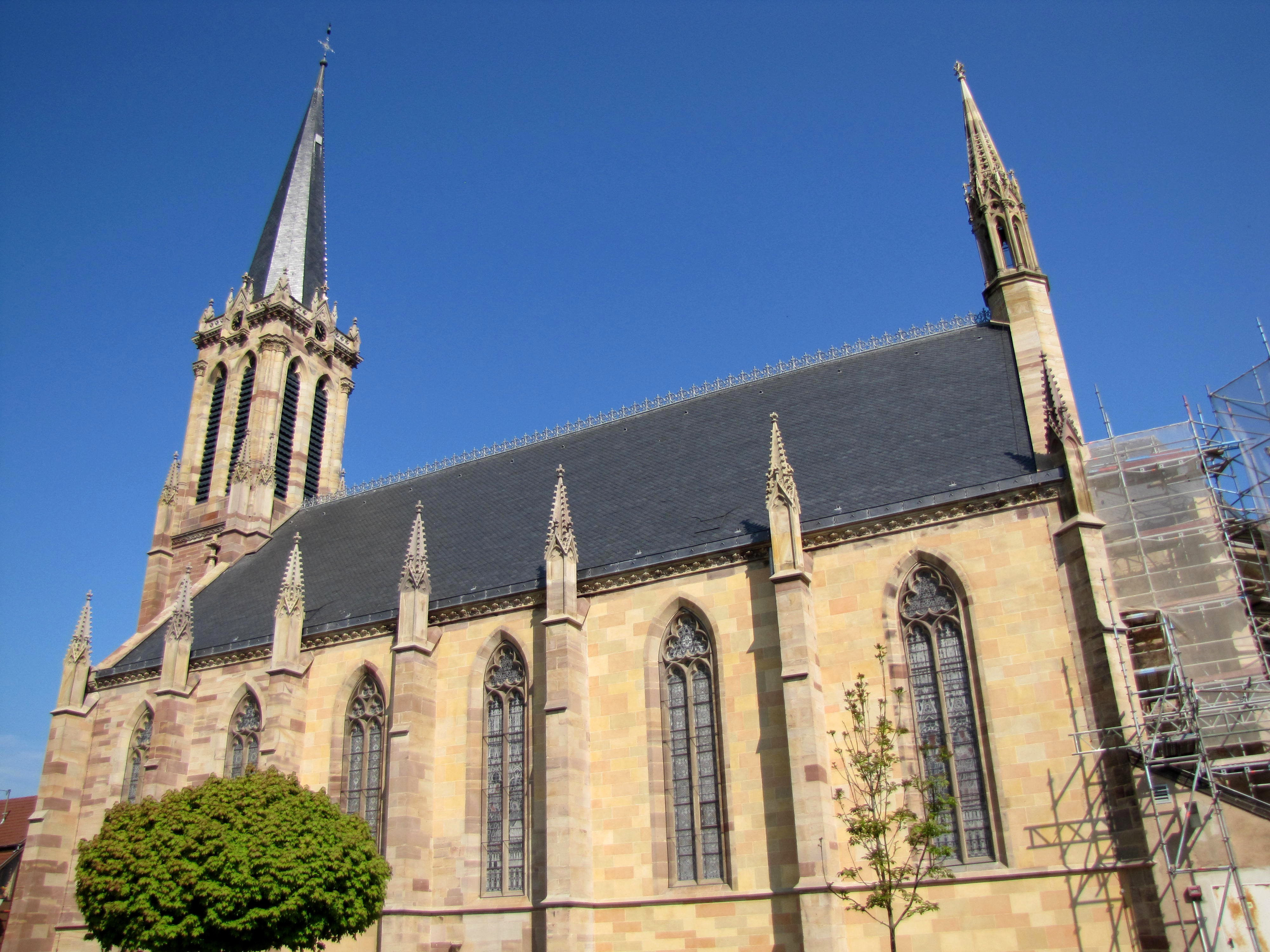 Alsace, Bas-Rhin, Westhoffen, Église protestante Saint-Martin (PA00085223, IA67006260).